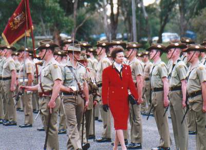 Princess Anne, the Princess Royal, passes in front of the Princess Anne Banner at the Royal Australian Corps of Signals 75th Anniversary parade.